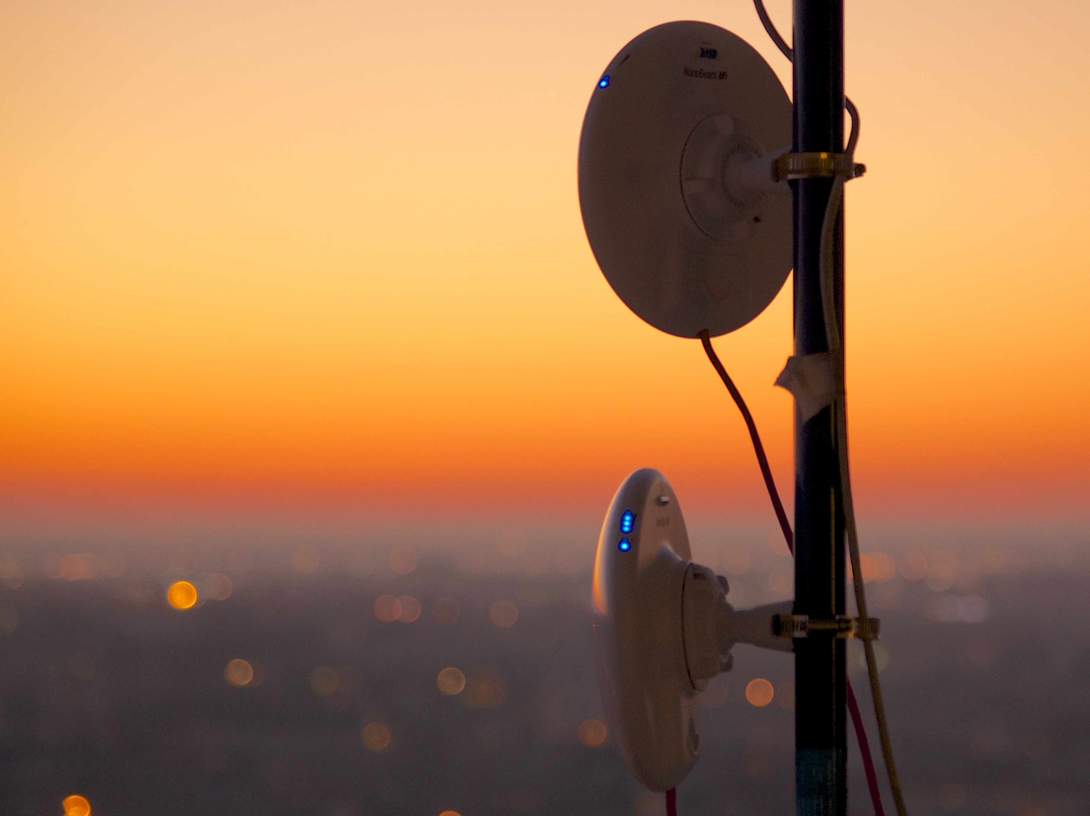 Wireless network antennas used by the local ISP in Toulouse, France